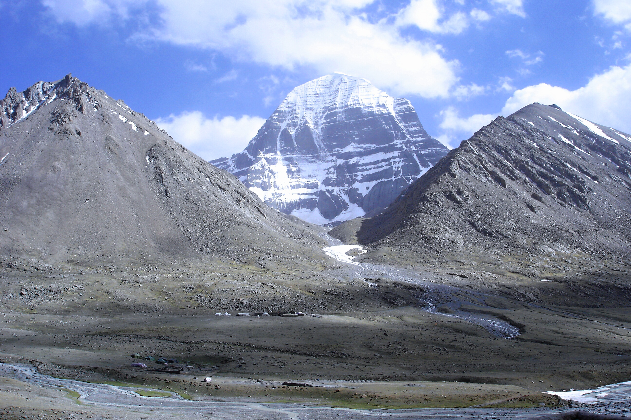 View to the northern side of Mt Kailash (Gang Rinpoche) from the Dirapuk Monastery (Tibet Autonomous Region, People's Republic of China).